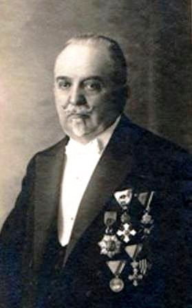 Photography Vasil Karagiozov (06/14/1856 - 03/31/1938)